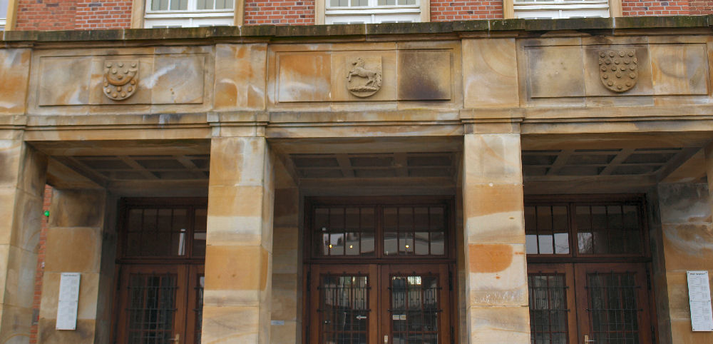 Rathaus Nordhorn Balkondetail